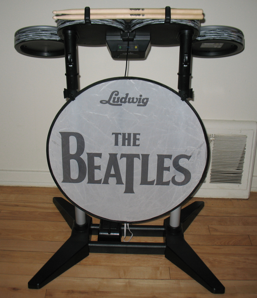 Drum kit set for the video game The Beatles: Rock Band